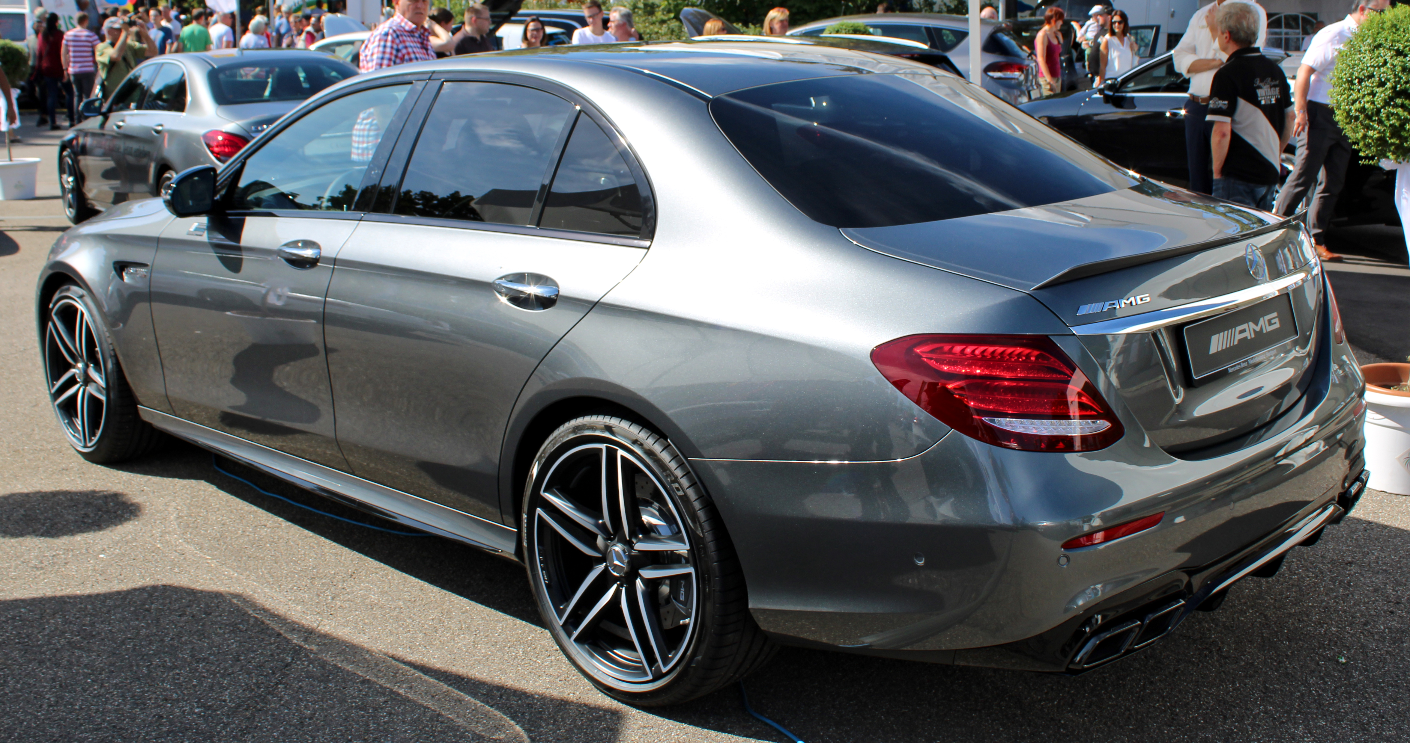 Mercedes-AMG E 63